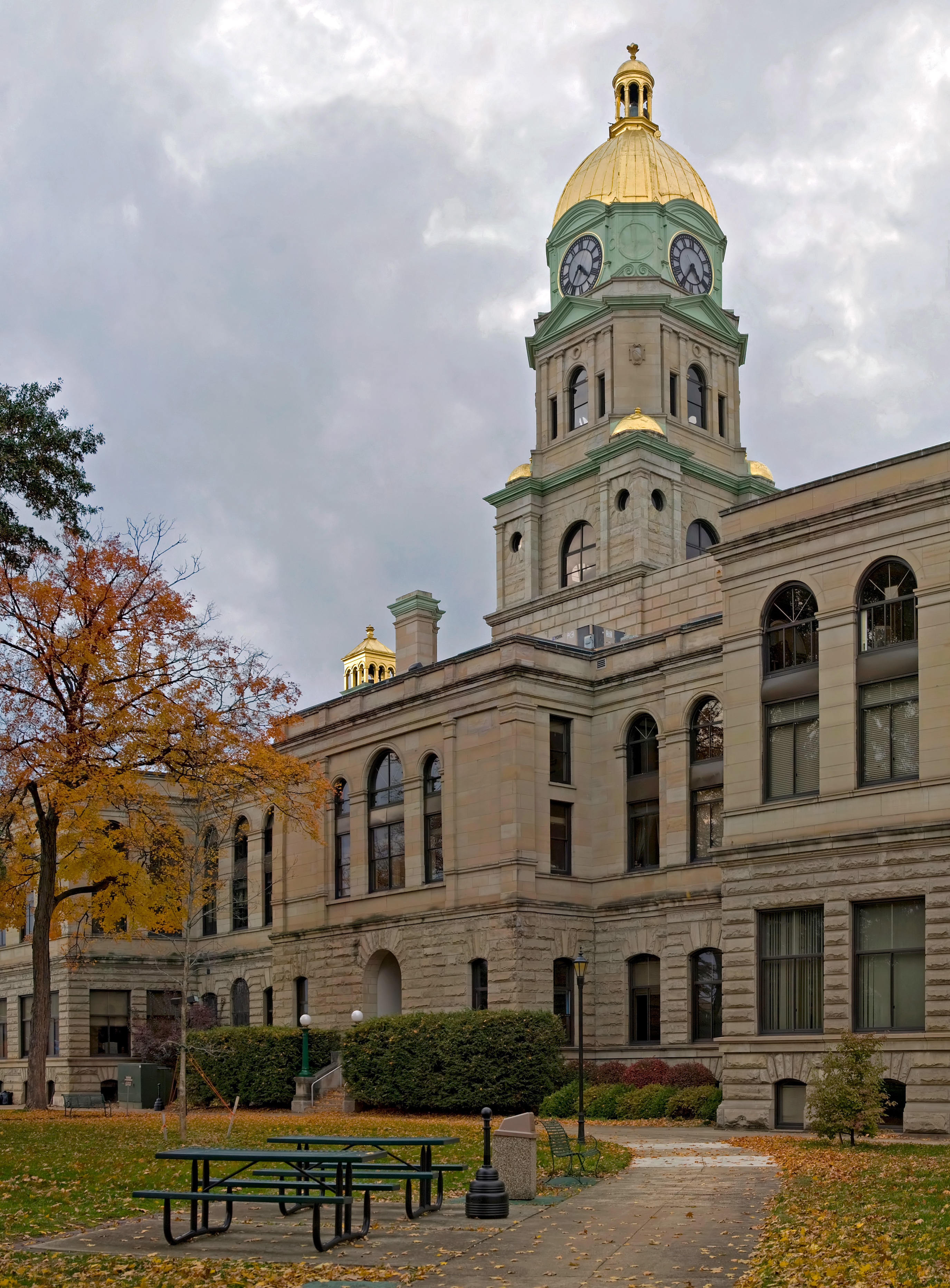 View of the Cabell County Courthouse in Huntington, West Virginia.